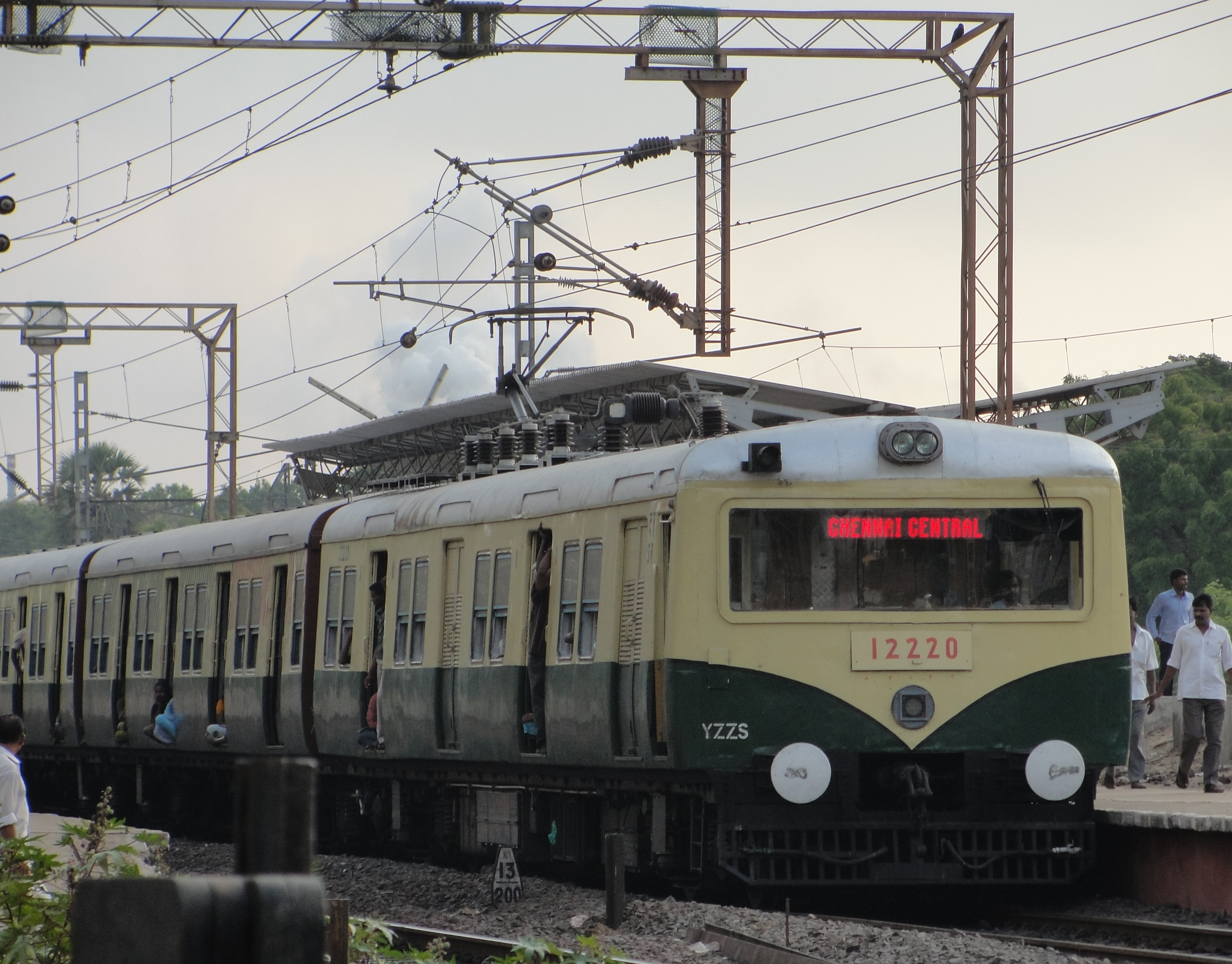 Chennai Suburban EMU plying in the North Line